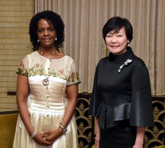 Grace Mugabe, Director of the Women's Affairs Division, Zimbabwe African National Union - Patriotic Front, met Akie Abe, spouse of Shinzō, in Japan on March 28, 2016.